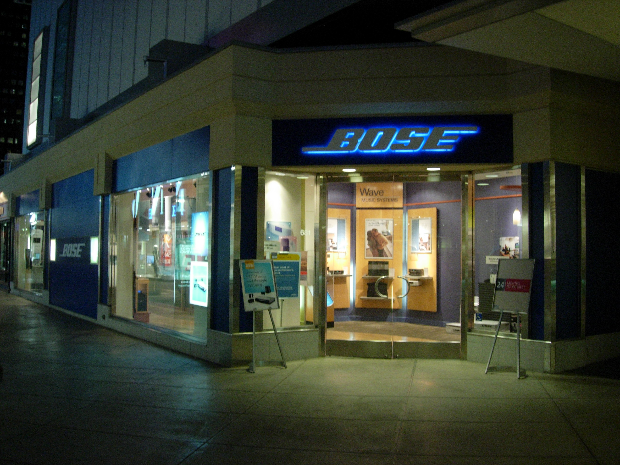 Bose retail store located in Century City, LA, USA